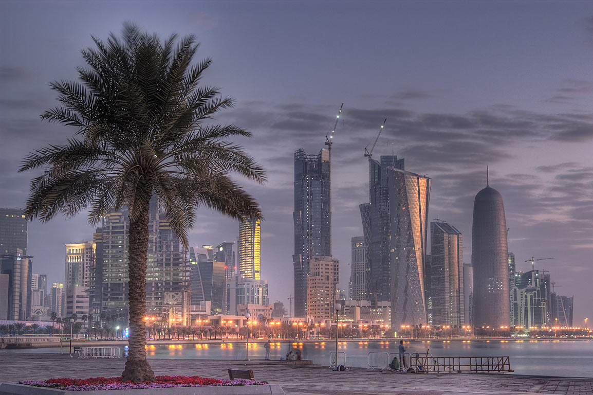 Dark clouds hang over the West Bay skyline. Doha, Qatar.